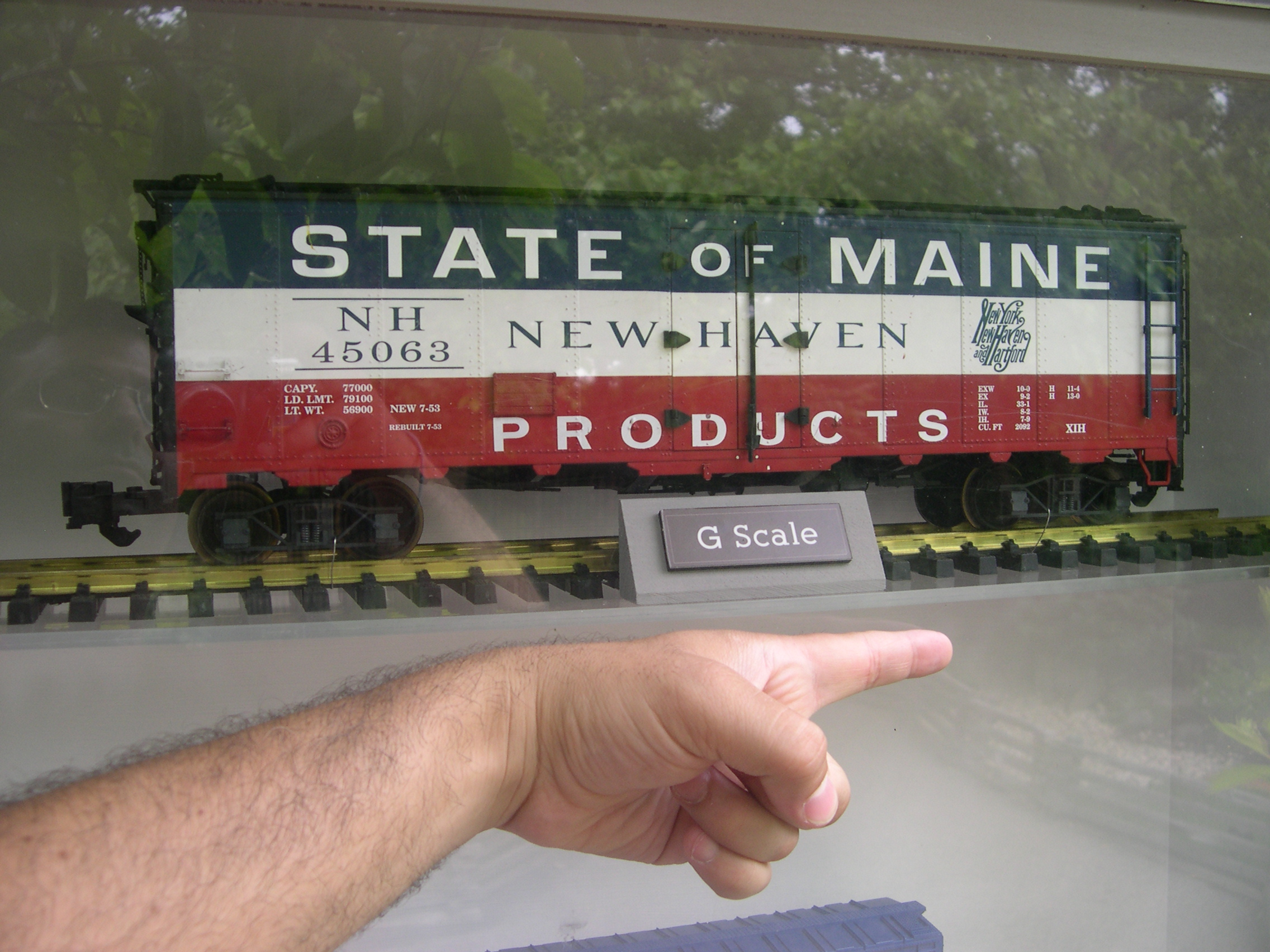 A G Scale train model compared to a finger. Shown at the Chicago Botanic Garden.